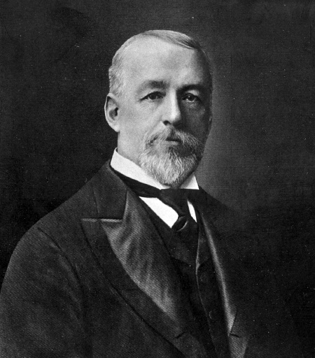 A photograph of Alcée Fortier, the Louisianian historian and a professor of French Studies at the University of Louisiana, later Tulane University.